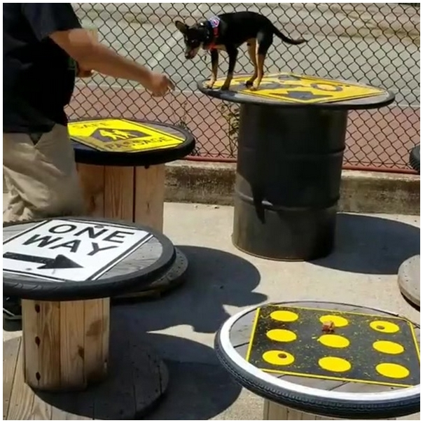 Stool Circle also doubles as sitting circle for pups and puparents a like.